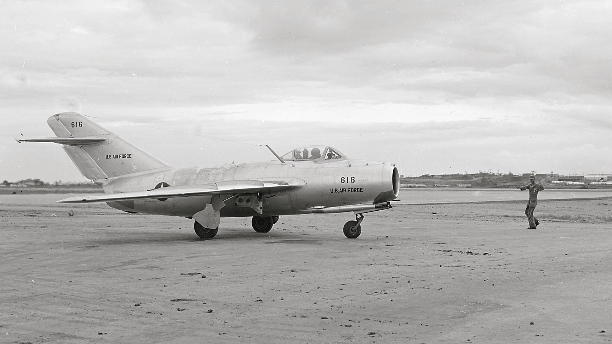 Original caption : HQ. FEAF, TOKYO --- With reassembly and ground checks completed, the MIG is taxiied to take-off position by a U.S. Air Force test pilot on Okinawa. The Russian-built fighter was flown by five Air Force pilots. It was found that performance of the MIG was below that of the F-86 "Sabre" jet.